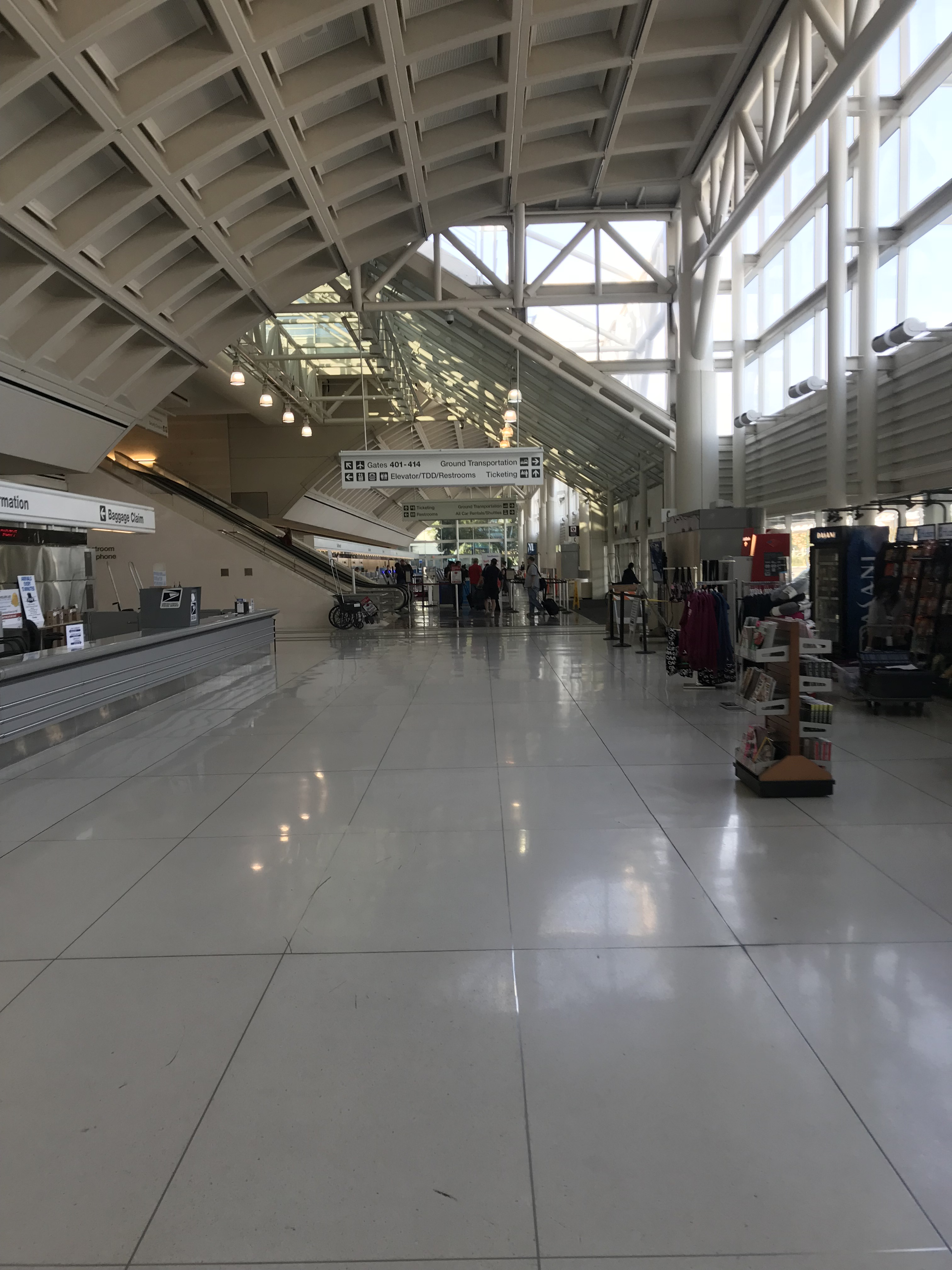 中文（香港）: Check in area on ONT Airport